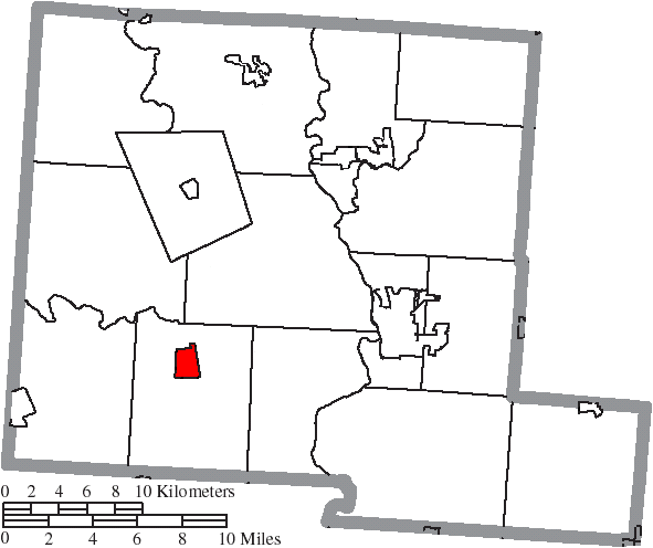 Map of the municipal and township boundaries of Pickaway County, Ohio, United States, as of the 2000 census, with the location of the village of Williamsport highlighted. Township borders are shown only in unincorporated areas in order to differentiate incorporated and unincorporated areas more clearly.